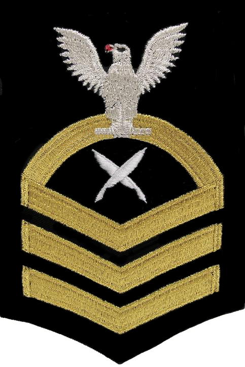 Rating insigna - USN chief yeoman